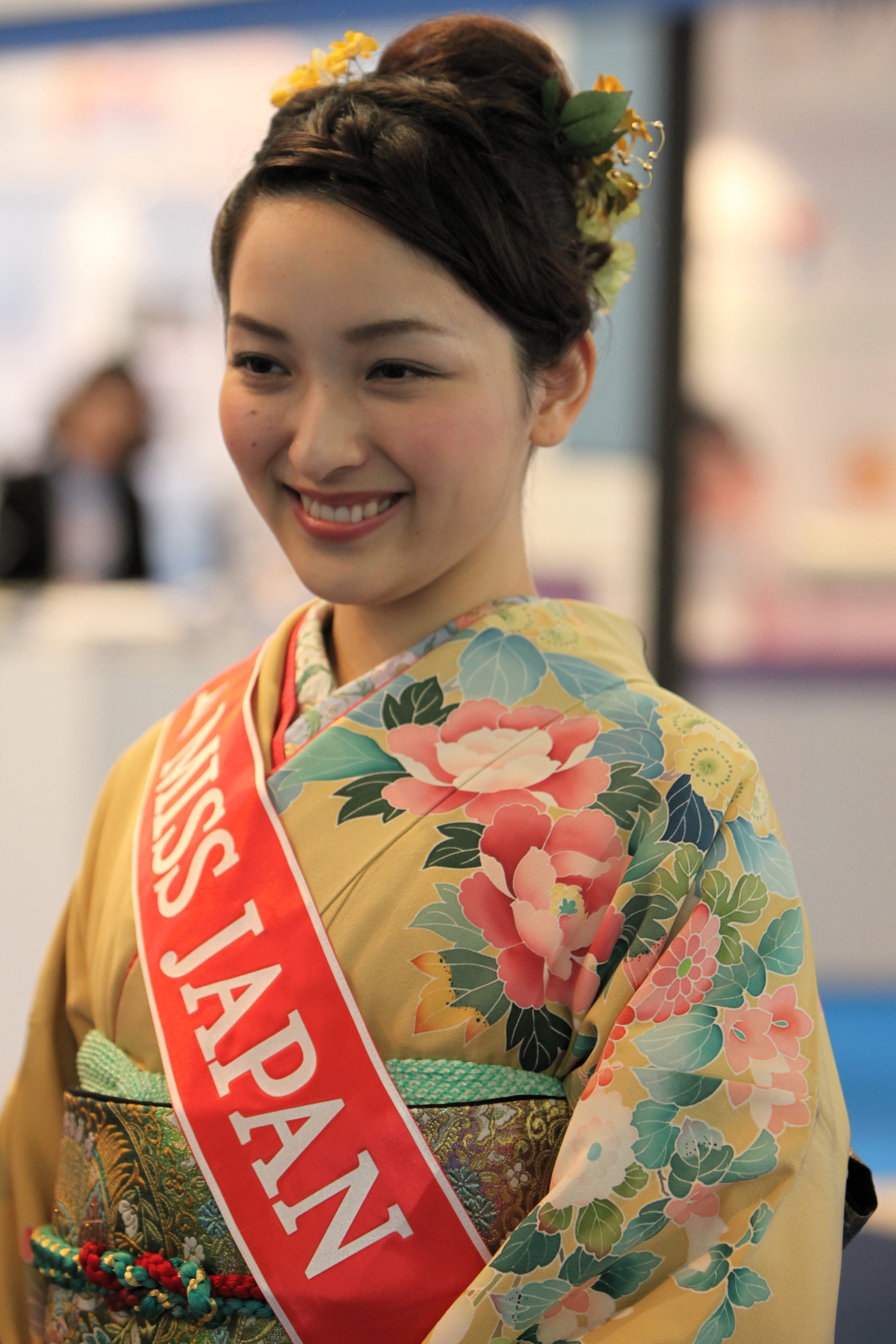 Maria Kamiyama at the 6th World Water Forum